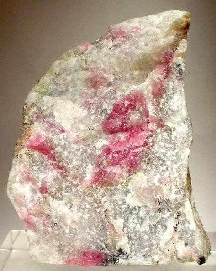 Tugtupite, Quartz Locality: Kuannersuit (Kvanefjeld) plateau, Ilimaussaq complex, Narsaq, Kitaa (West Greenland) Province, Greenland (Locality at ) A very rich and aesthetically shaped specimen of the SUPER-FLUORESCENT and rare, cherry-red, beryllium silicate, tugtupite, in quartz matrix from the Ilimaussaq Complex in Greenland. The base has been sawed to enhance display. Ex University of Copenhagen and Richard Hauck Collection. 7.4 x 6.0 x 2.7 cm